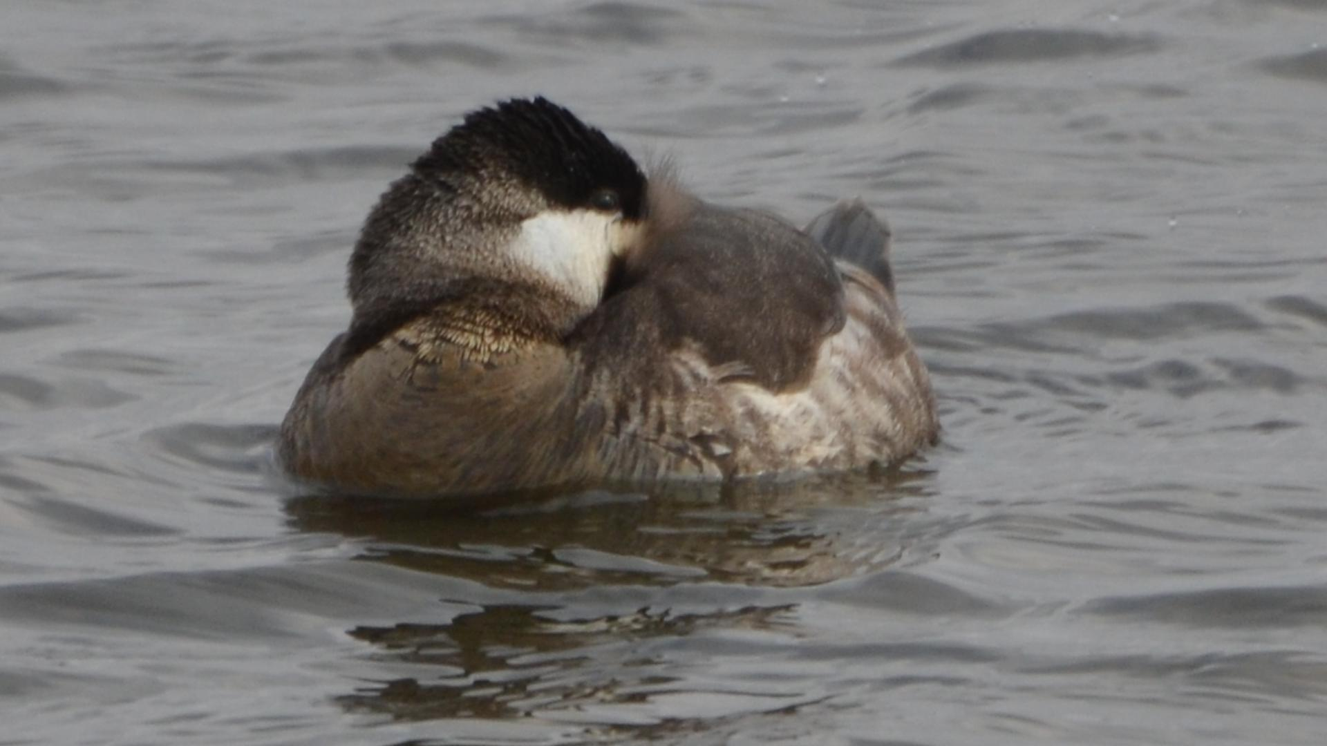 Riverlands Migratory Bird Sanctuary in Alton MO on 12/29/12